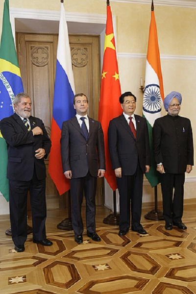 Yekaterinburg, Russia. BRIC (Brazil, Russia, India and China) leaders during the 1st BRIC summit, June 16, 2009.